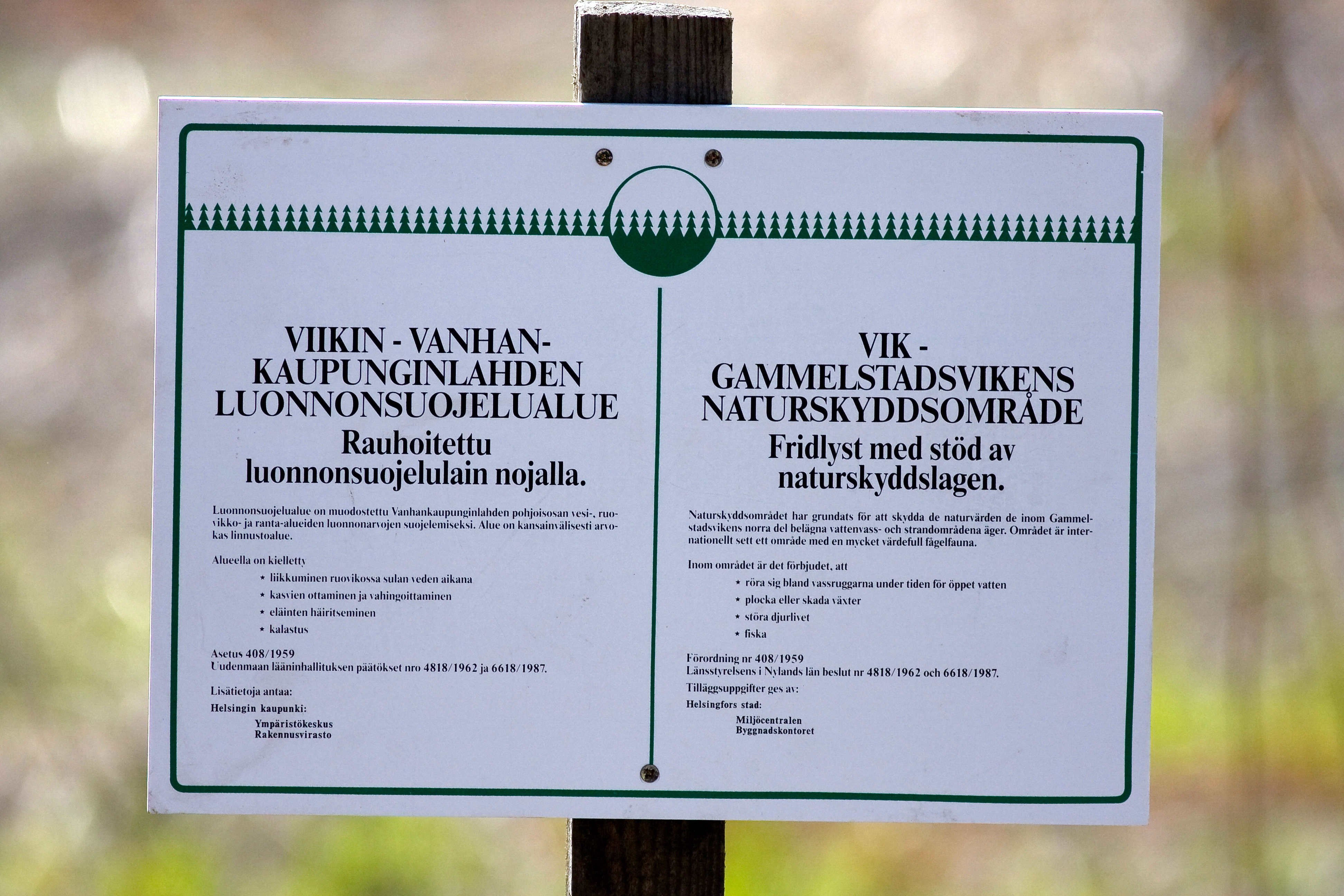 Prohibition sign at Vanhankaupunginlahti near Helsinki downtown. The sign says (roughly translated) "Visitors on the area are not permitted to move between the reeds while the area is unfrozen, collect or damage the foliage or distribute animals in general. In addition, fishing is not permitted at the area."